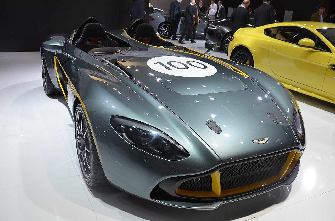 IAA Frankfurt 2013: Aston Martin CC100 / Photo: Raphael Jahn ____________________ Please feel free to use this image for FREE under the Creative Commons (CC) licence. However, if you use the image, pls set a backlink to and give credit as following: "Image: ". For highres images or any other inquiries pls contact mailto: . Thanks.